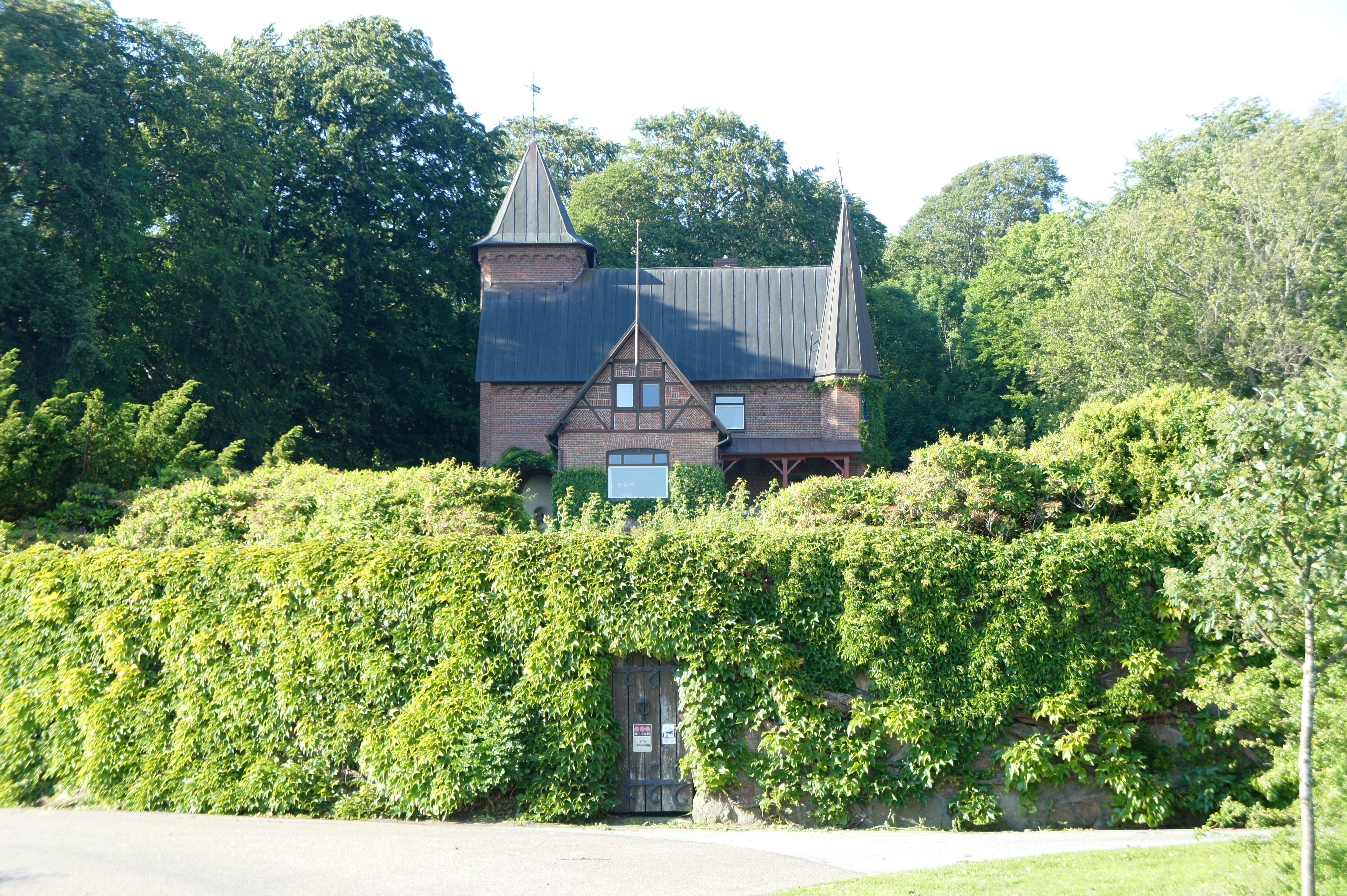 The manor Kockenhus in Scania, Sweden